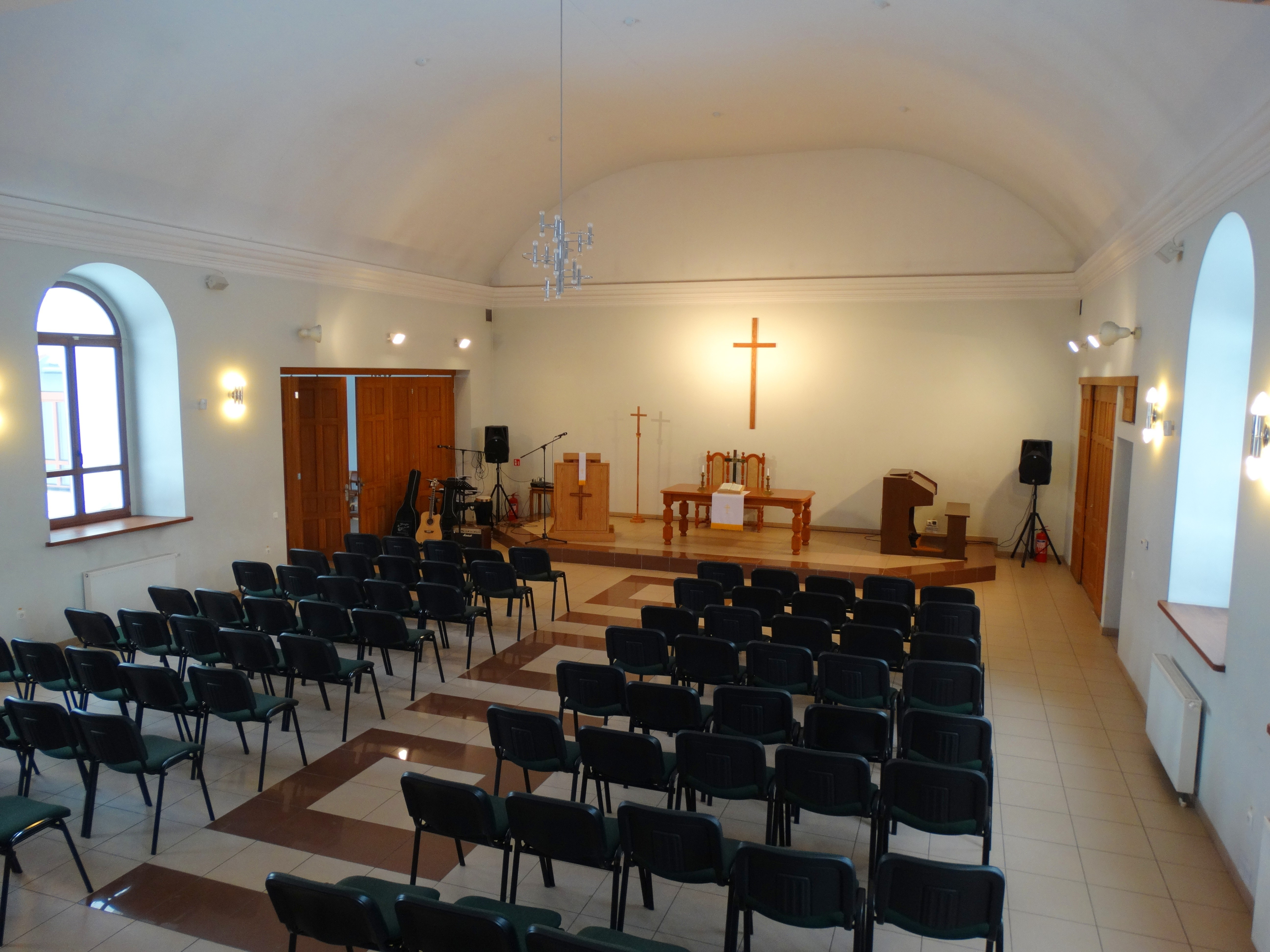 Methodist Church in Kaunas, Lithuania